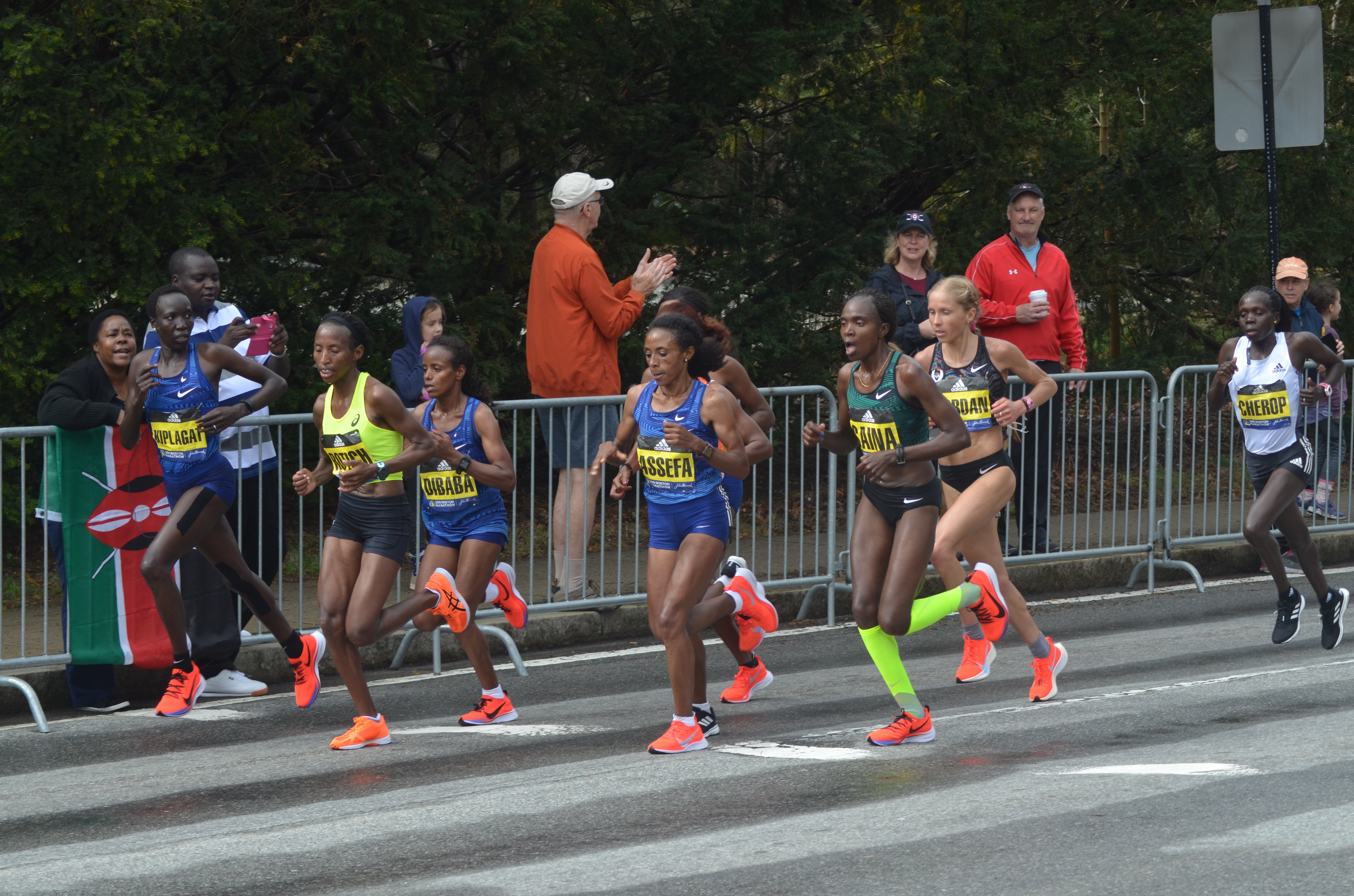 2019 Boston Marathon Lead Pack of women approaching half way point at Wellesley Square. Note that the winner, Worknesh Degefa, is not shown as she was well ahead of the pack. No one was between Worknesh and these women.